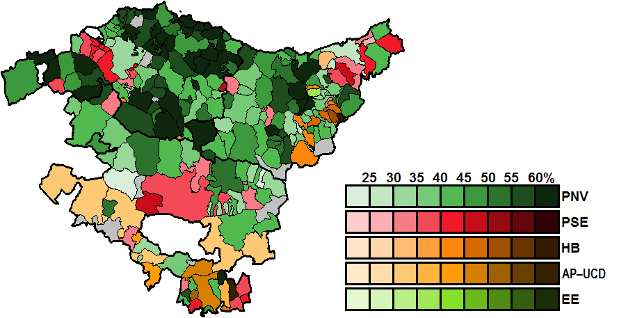 Most-voted party in Basque Country municipalities, showing vote share obtained, in the Spanish general election, 1982.